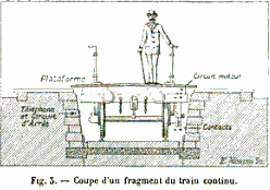 1886 design by Eugène Hénard (1849-1923) for a continuous train, or moving sidewalk, for the 1889 Paris Exposition